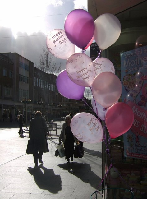 Happy Mother's Day Or should it be " mothers' "? Balloons outside the Exeter branch of Birthday on the High Street in the week before Mothering Sunday.